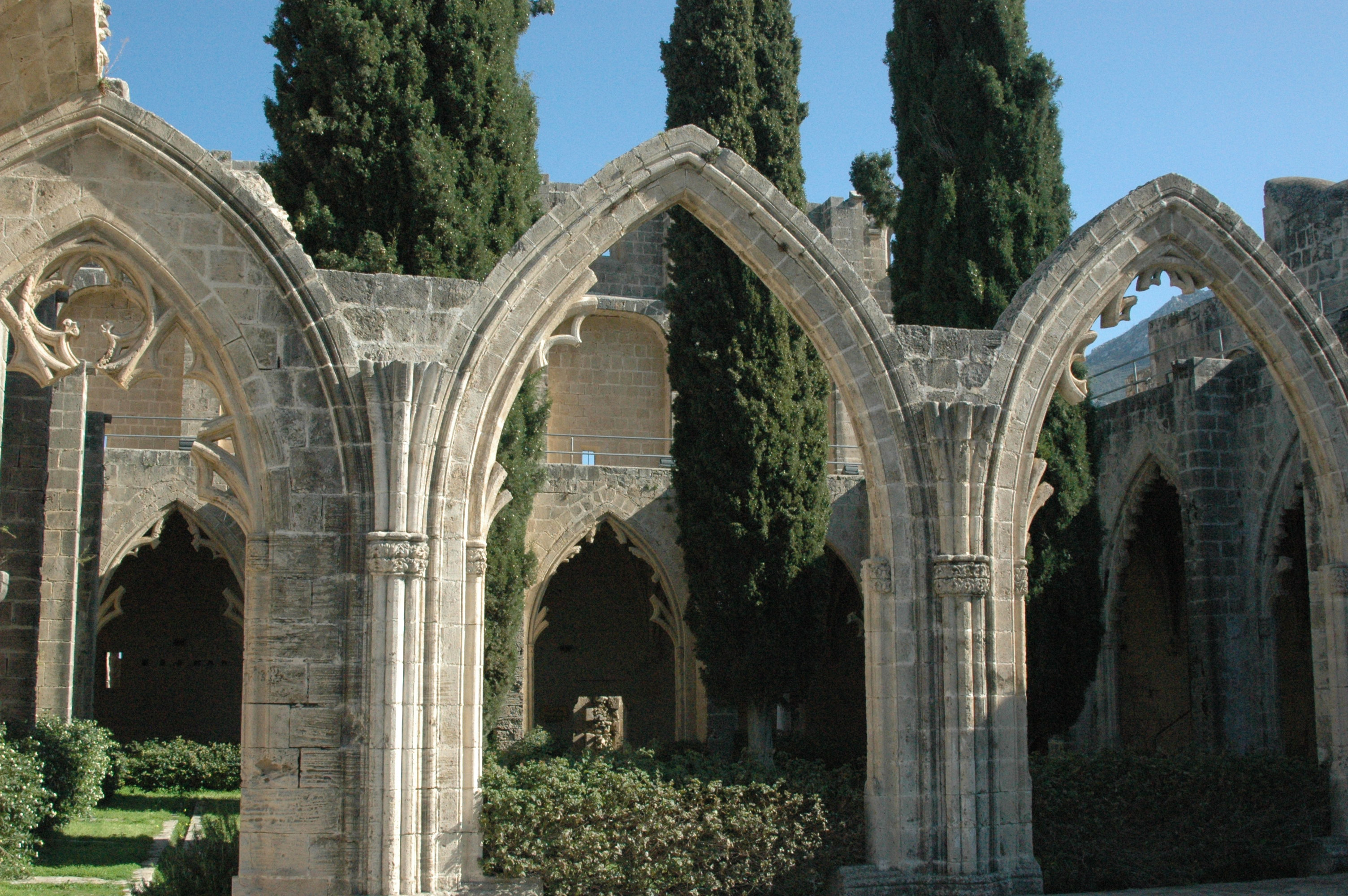 Bellapais Abbey